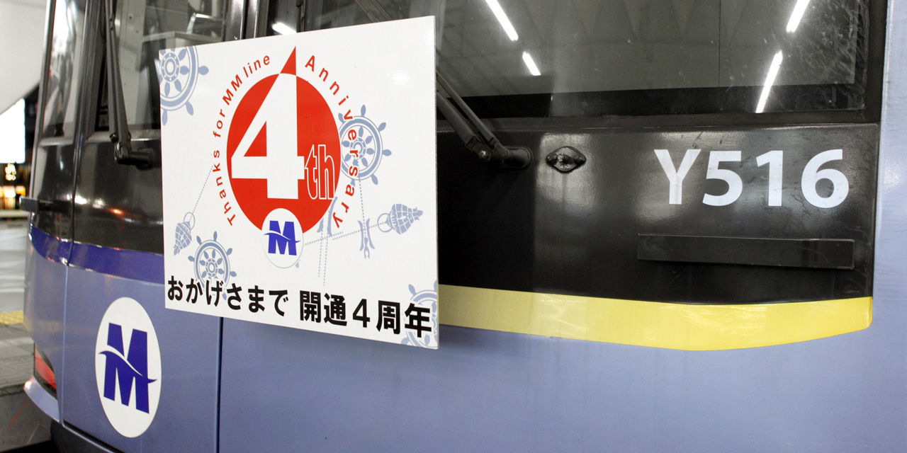 The headboard of fourth anniversary, Yokohama Minatomirai Line.